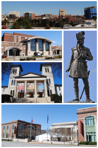 Photos I took around Spartanburg